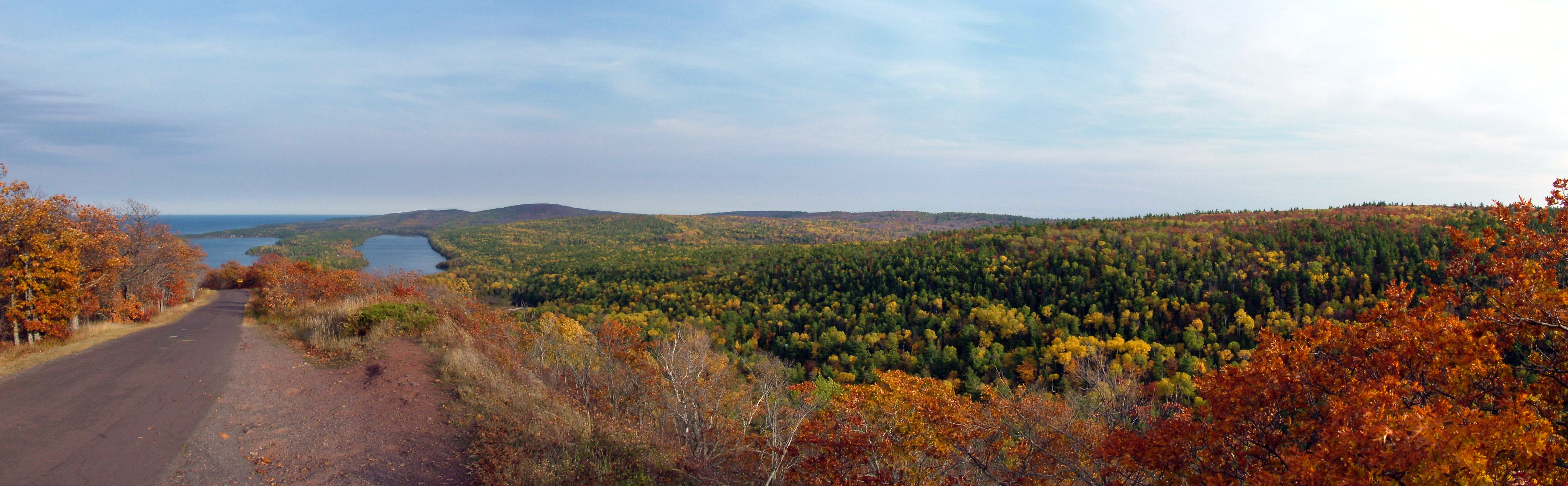 Panoramic of Lake Superior and surrounding woodland from atop Brockway Mountain Drive